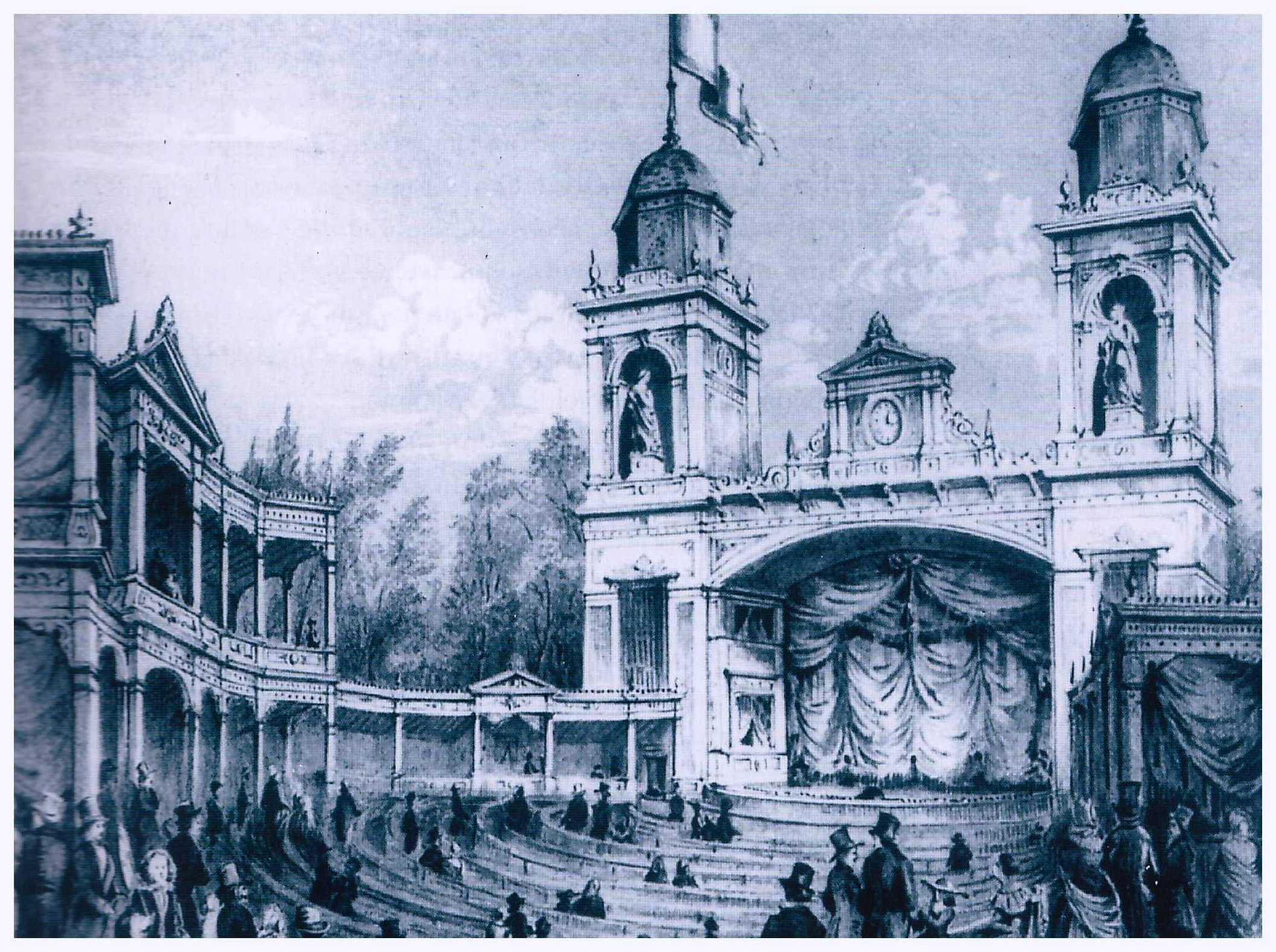 Summer Theatre in the Great Garden of Dresden (1870's)